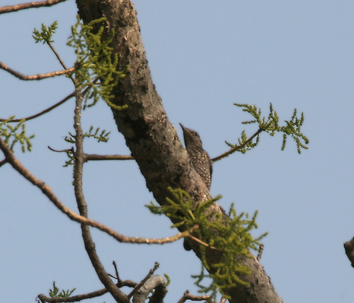 Chestnut-bellied Rock Thrush Monticola rufiventris at Jayanti in Buxa Tiger Reserve in Jalpaiguri district of West Bengal, India.